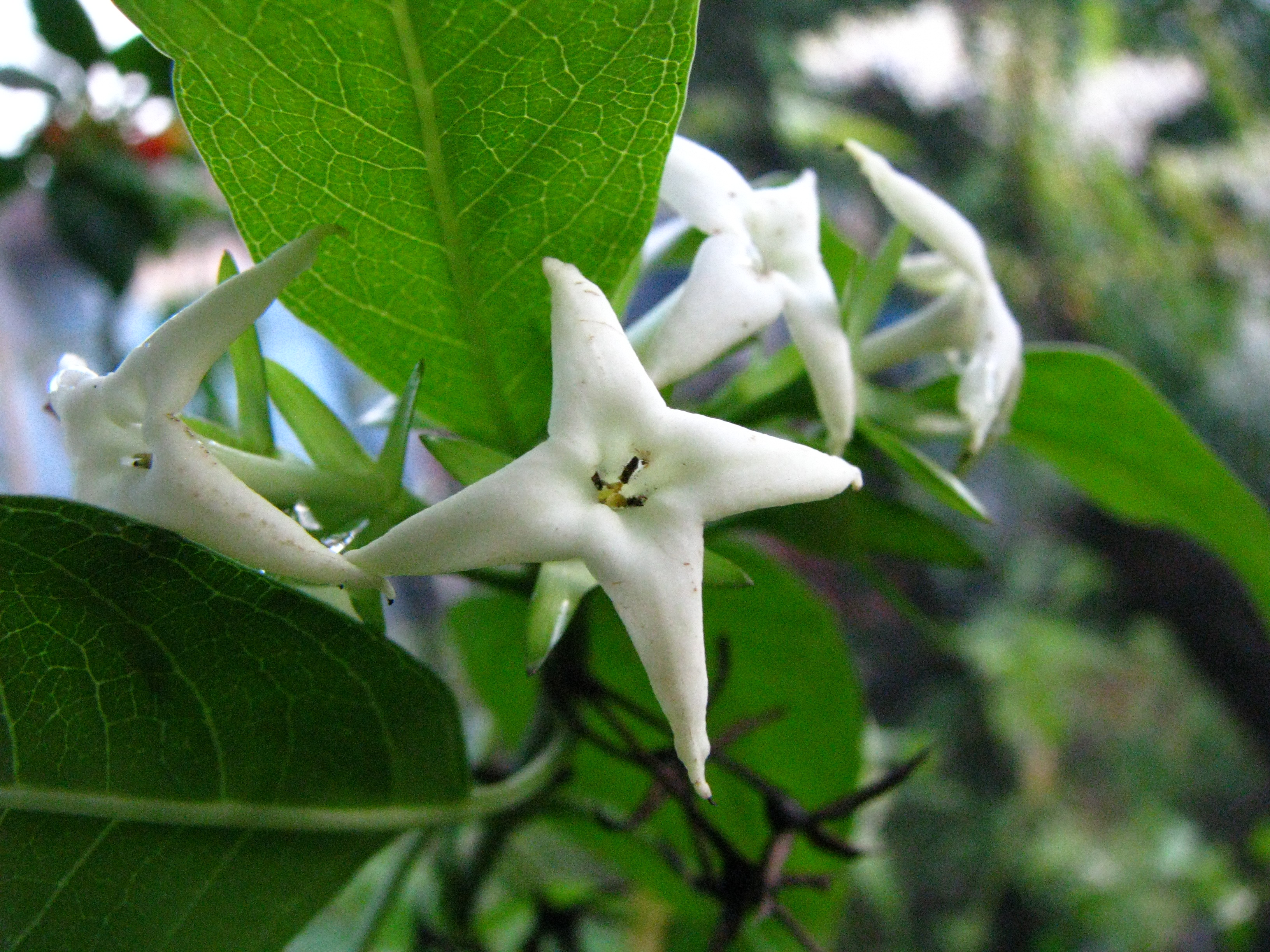 Kamapuaʻa Rubiaceae [syn. Hedyotis fluviatilis] Endemic to the Hawaiian Islands Endangered Oʻahu (Cultivated)